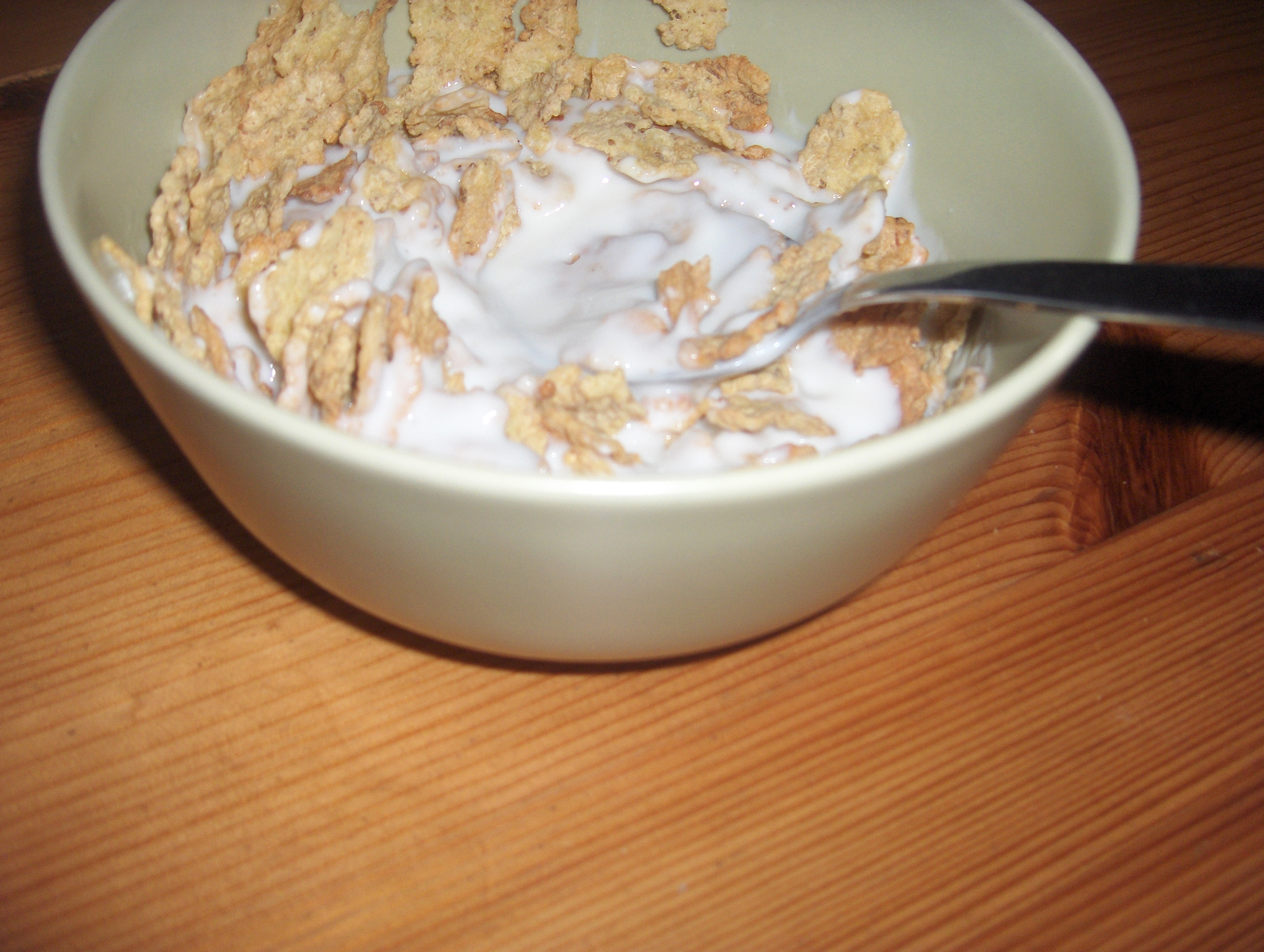 Youghurt with vanilla taste and Kellogg's Special K flakes in Sweden, the youghurt from Arla Foods and the flakes from Kellogg Company. Photographed by me in winter 2008.